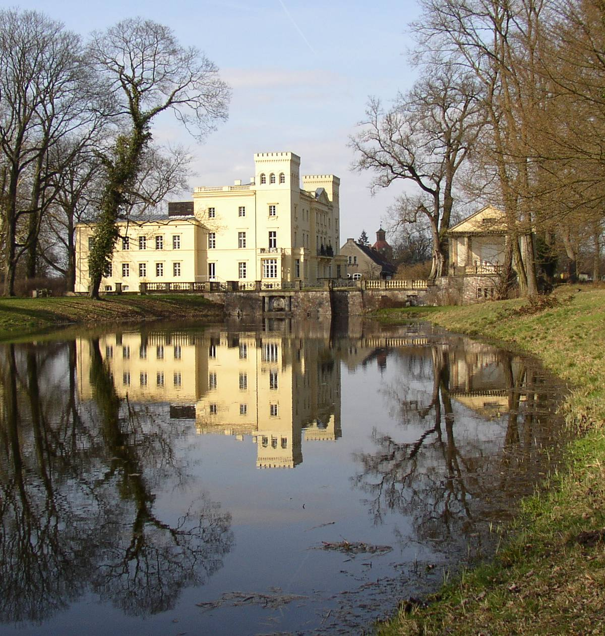 Palace in Steinhöfel in Brandenburg, Germany